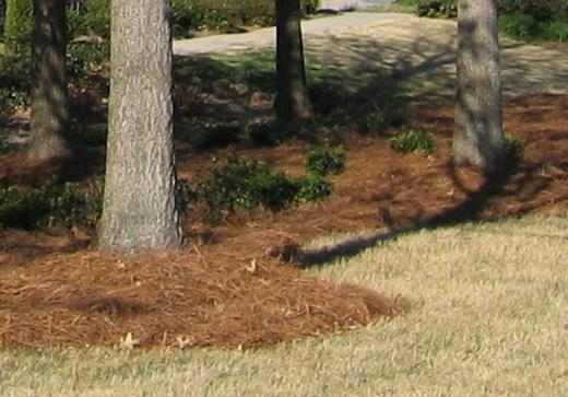 from